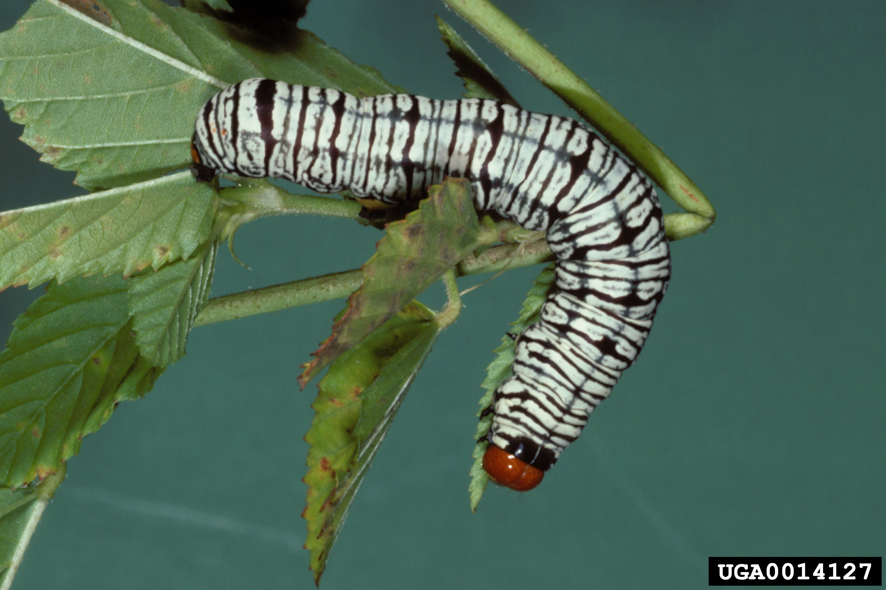 Diphthera festiva larva